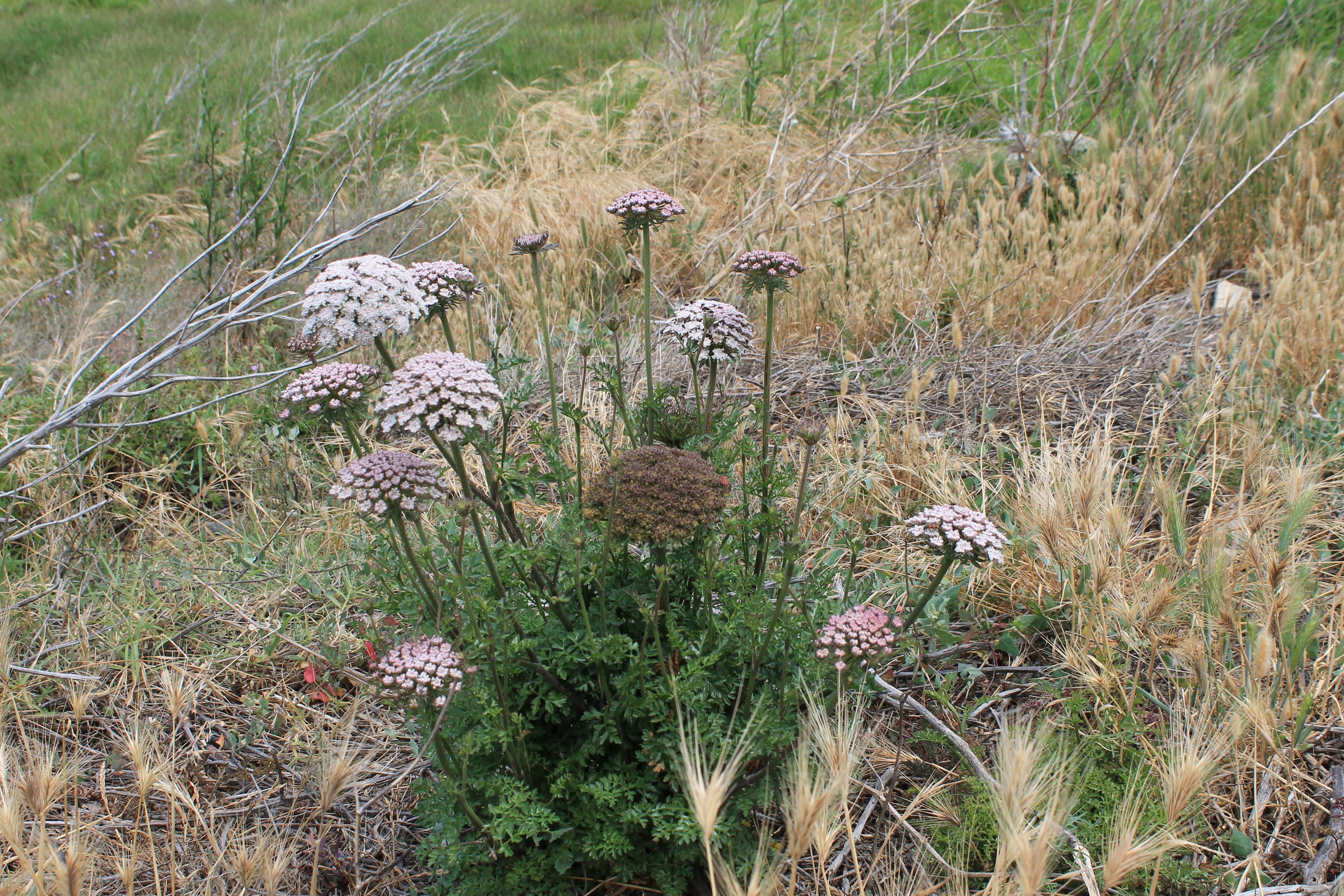 Plant (Daucus carota subsp. hispanicus), Spain, northeastern coast, Parc Cap de Creus